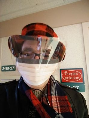 A Kimberly-Clark surgical mask worn by a man taking his father home from the Boise VA Medical Center (Fort Boise) during the 2014-2015 flu season on Christmas Day; that year's flu shot had only provided partial protection. Note the eye-shield and the Droplet Isolation protocol signage.